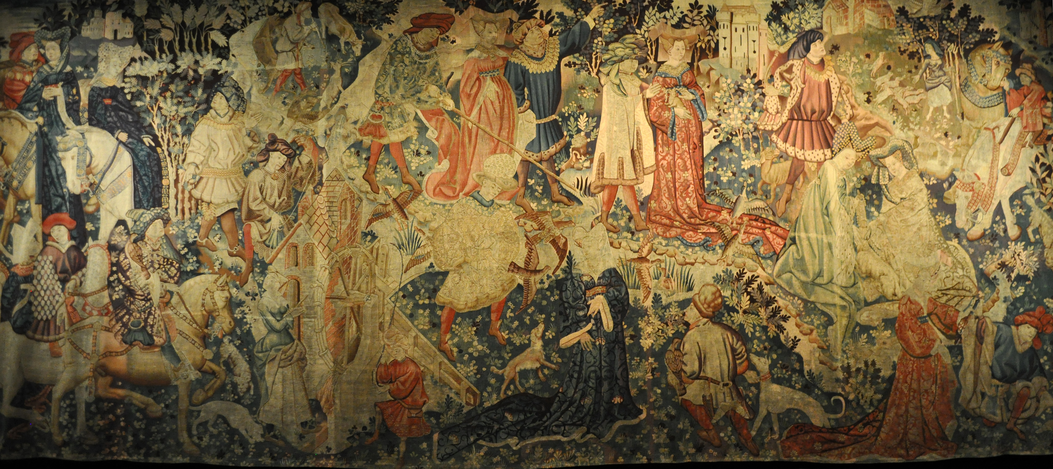 Falconry, The Devonshire Hunting Tapestries, late 1420s